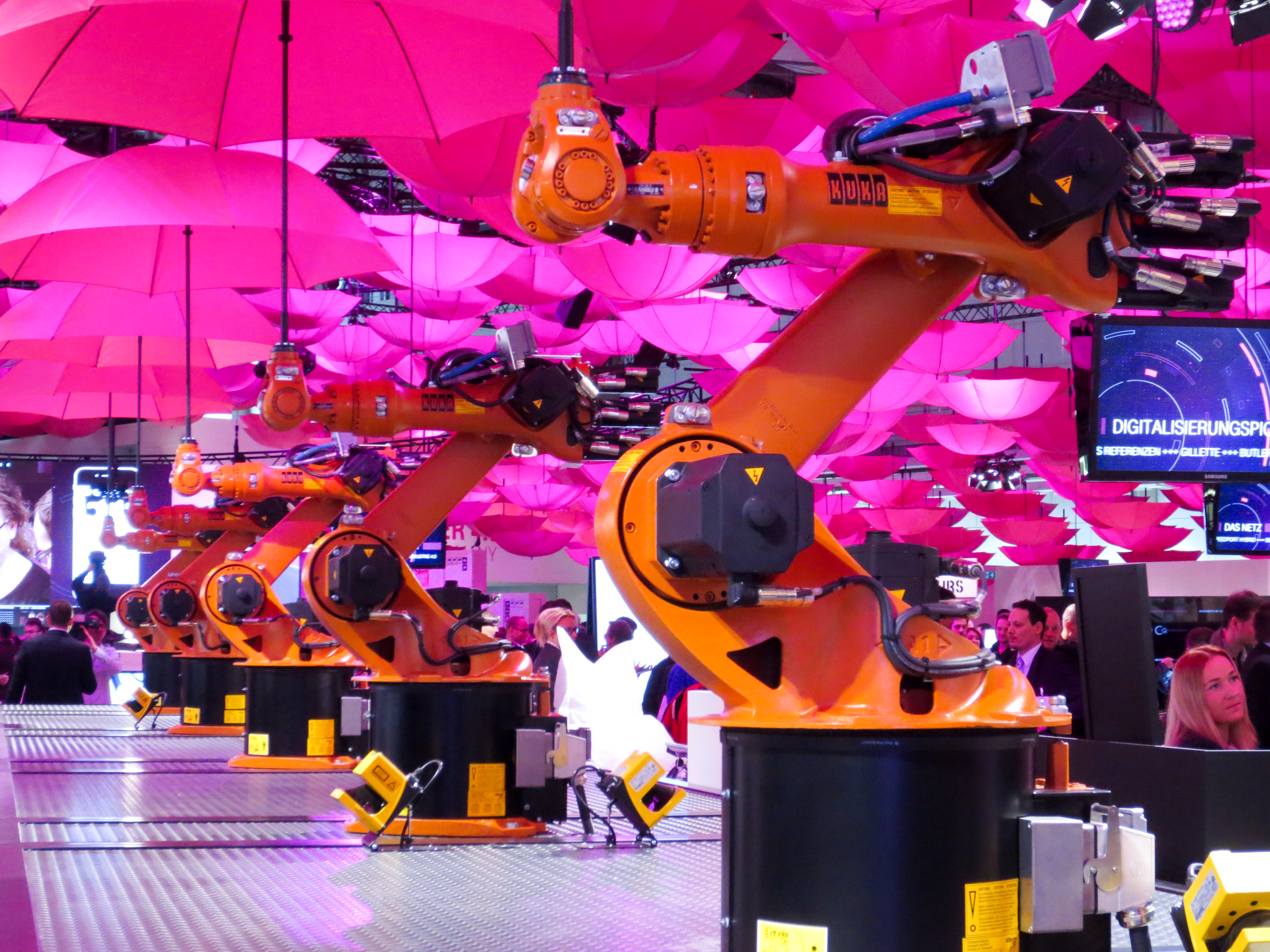 The booth of the Deutsche Telekom at the CeBit 2015. It shows moving arms of robots holding magenta umbrellas. That schould mention the internet of things.